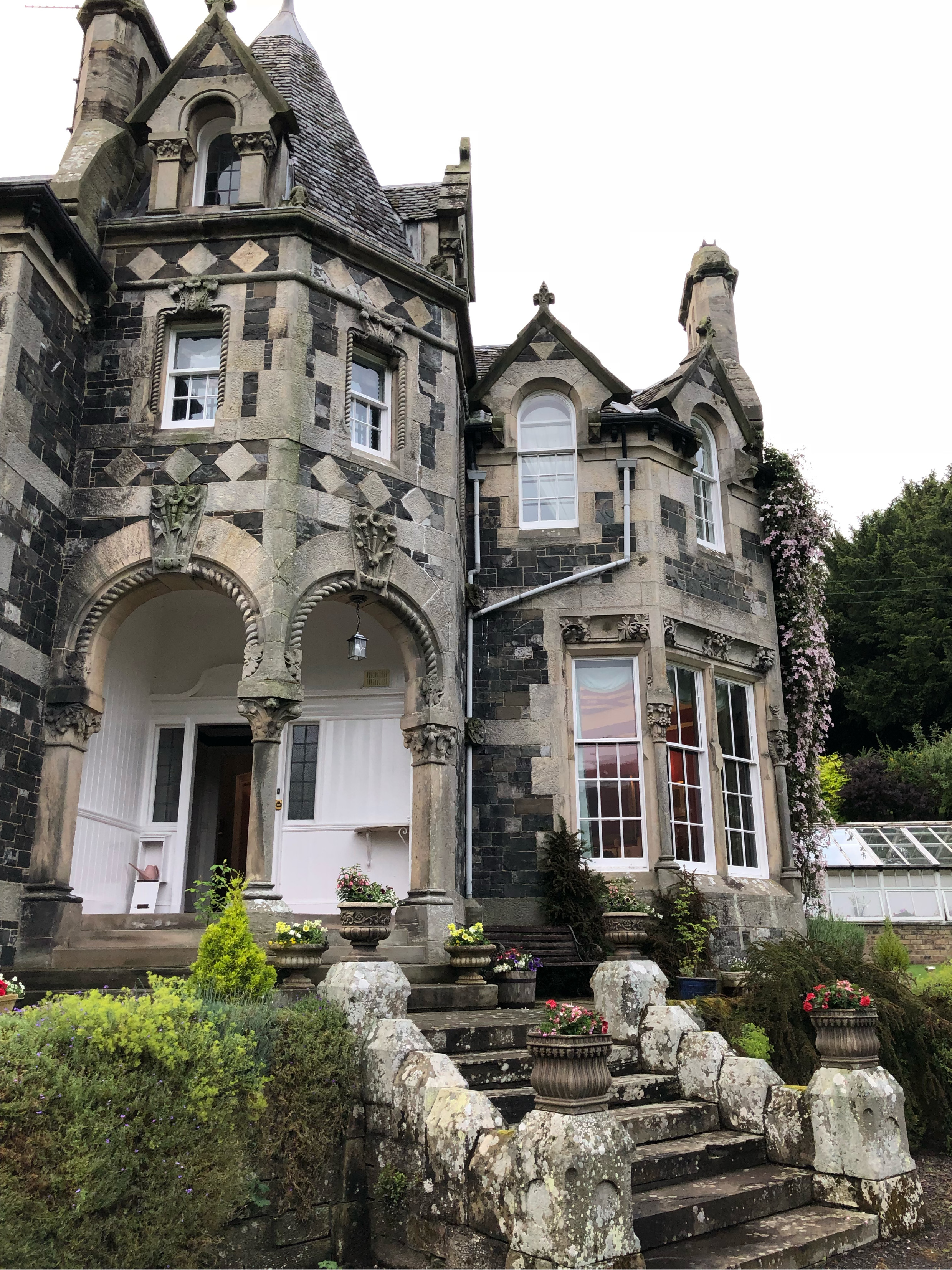 The Kirna, a.k.a. Kirna House, Walkerburn. Designed by F T Pilkington